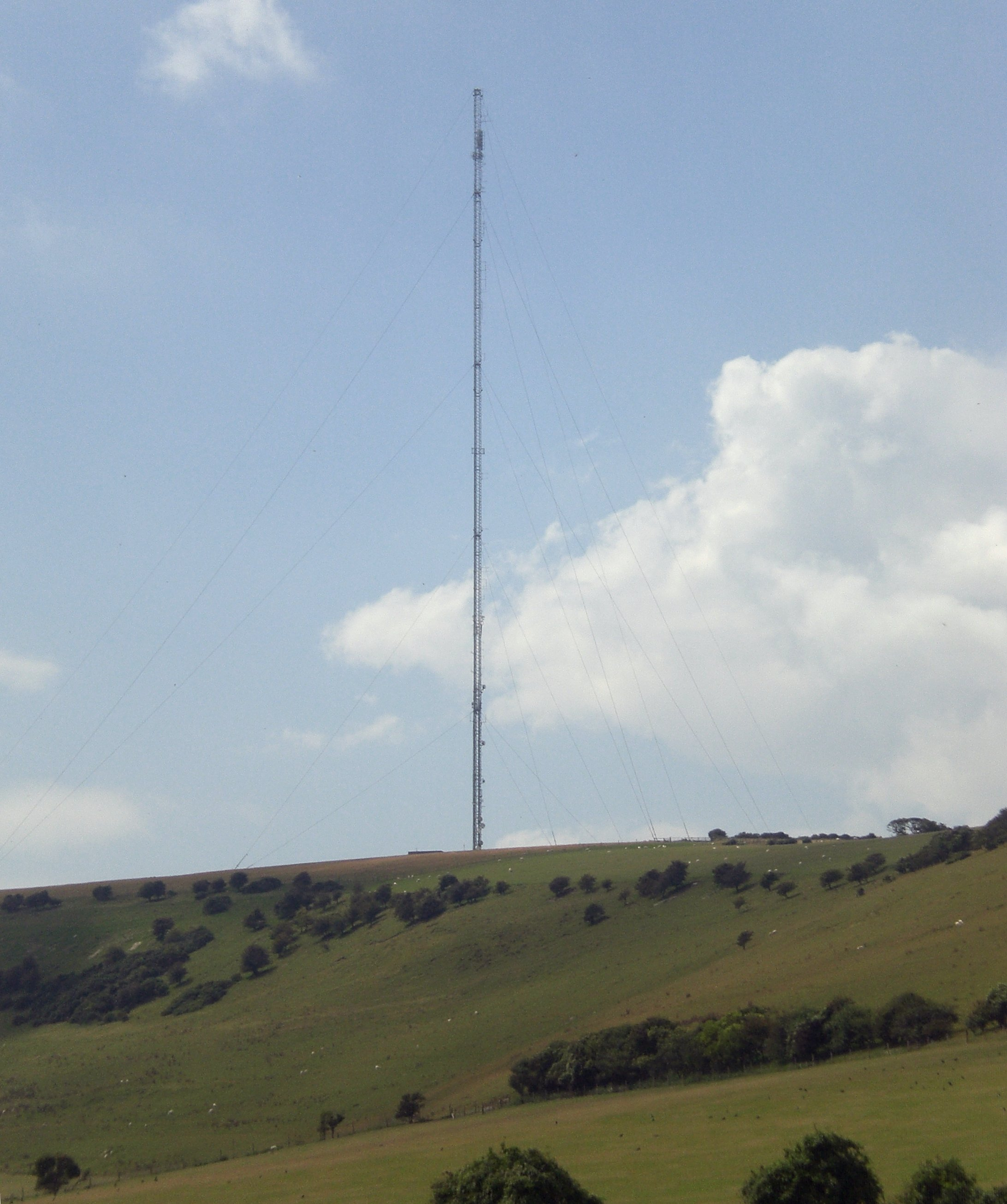 Chillterton Down radio transmitter. This is a tweaked version of Chillerton_Down_radio_transmitter.JPG, which is a PD image from Wikimedia. I've rotated it to get the mast vertical, cropped some of the sky at the top and stretched the contrast.